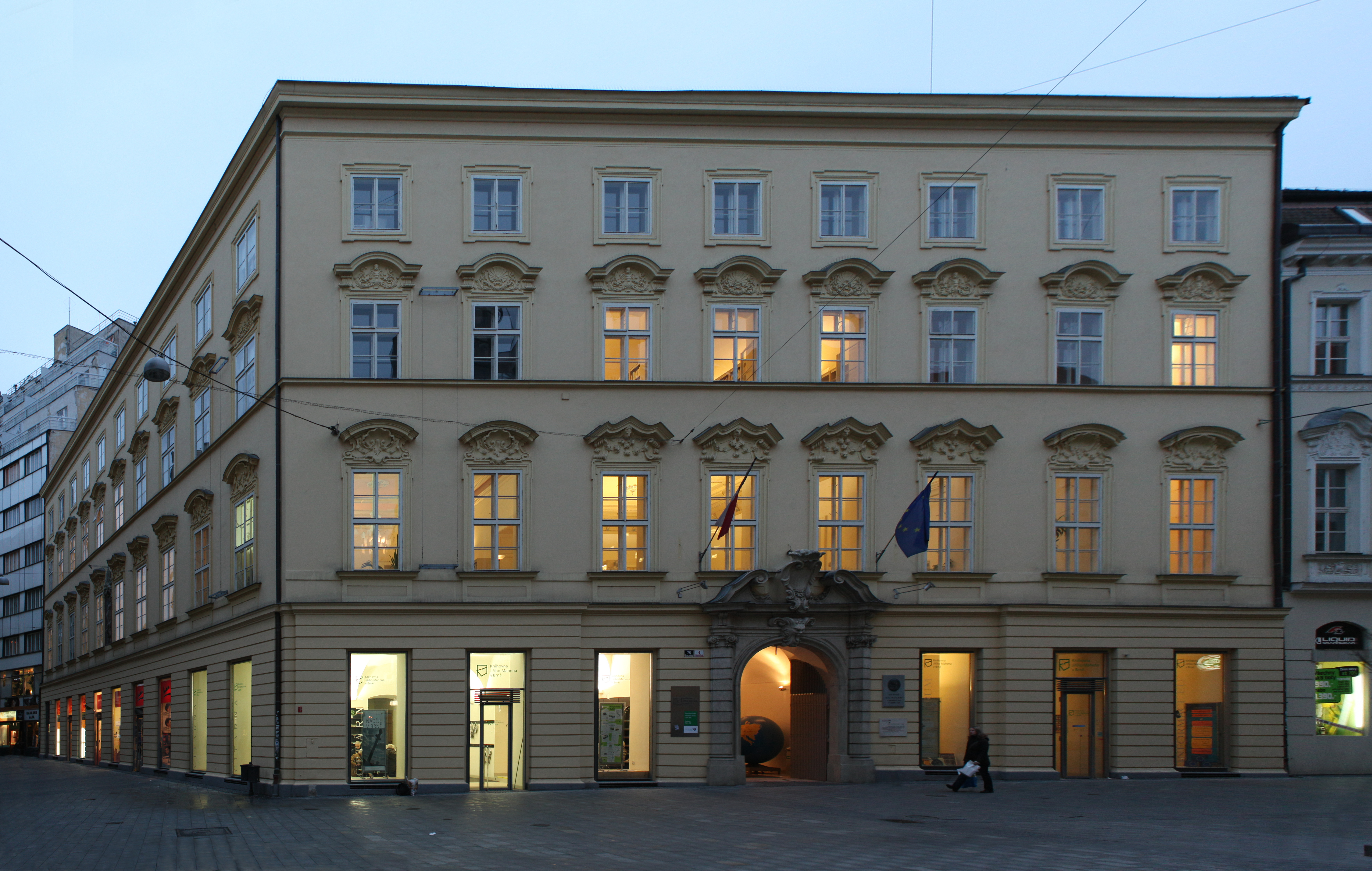 Jiří Mahen library in Brno